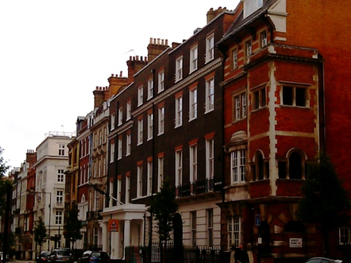 Queen's College London